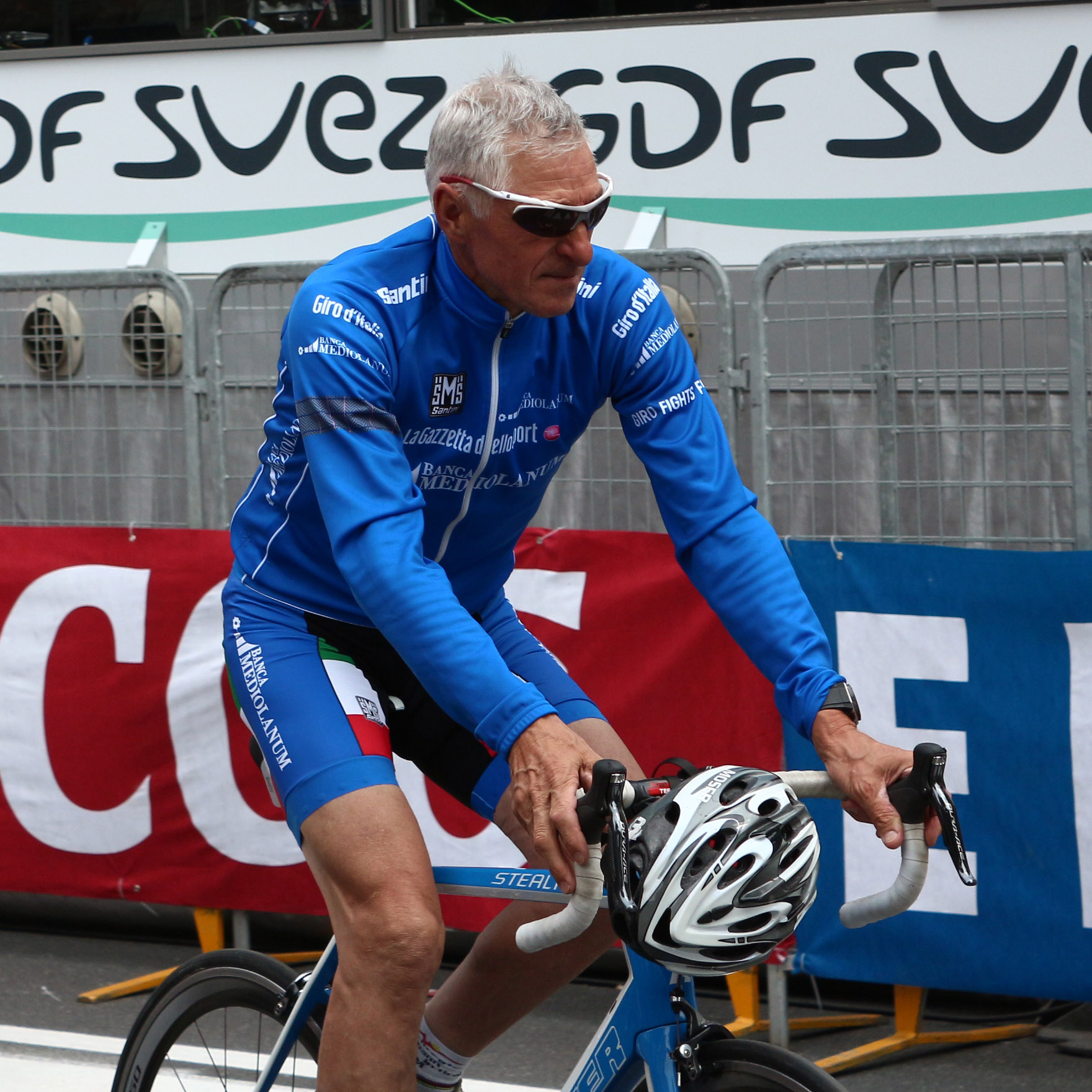 Francesco Moser at Giro d'Italia 2014